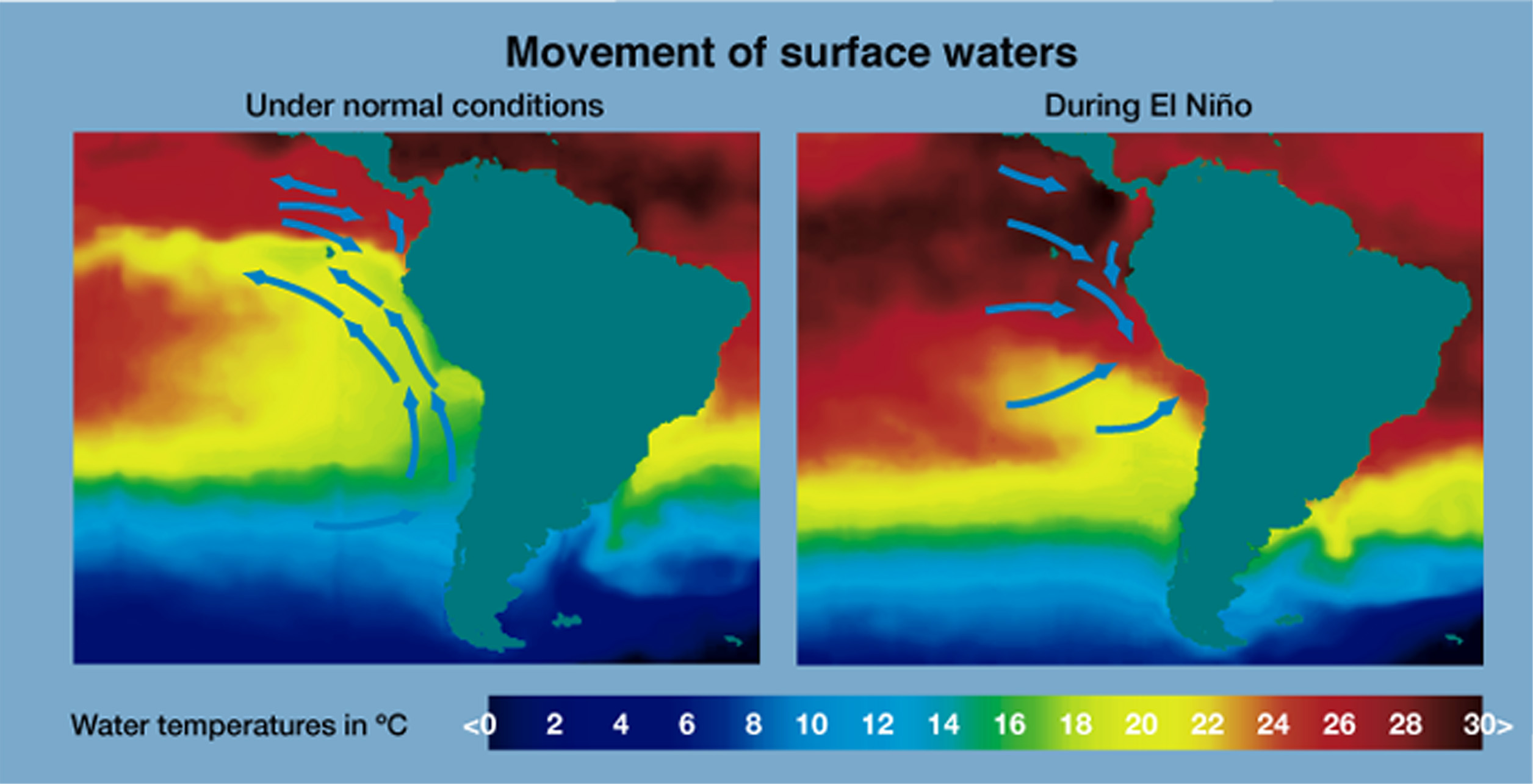 For reasons not completely understood, in some years the anti-cyclone is less powerful than normal. The weaker winds it produces fail to draw cold waters up to the ocean's surface, thus opening the way for warm, nutrient-poor tropical waters. These changes in water temperature and climatic conditions are known as "El Nino".